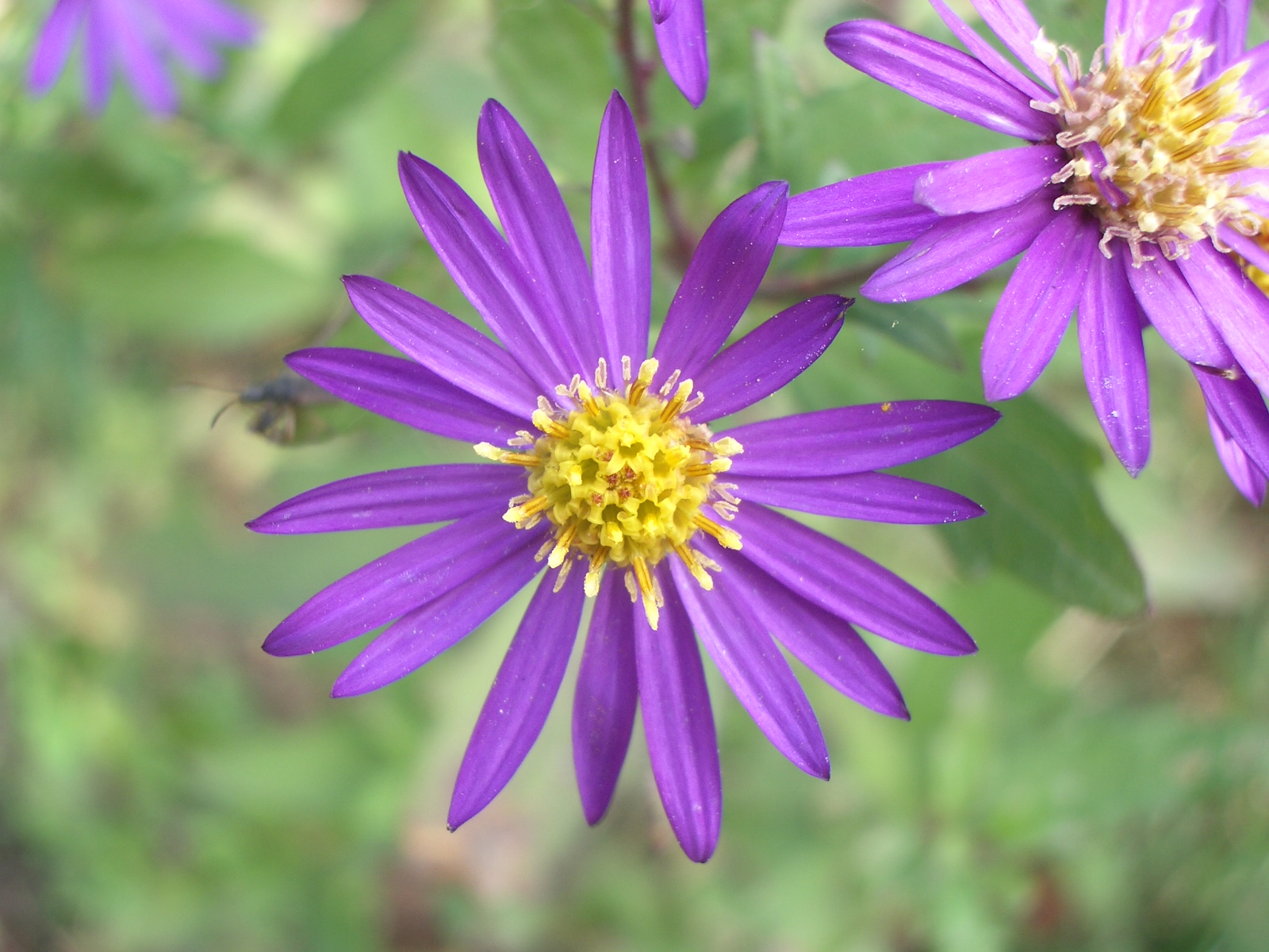 Japanese Aster ageratoides ssp ovatus.